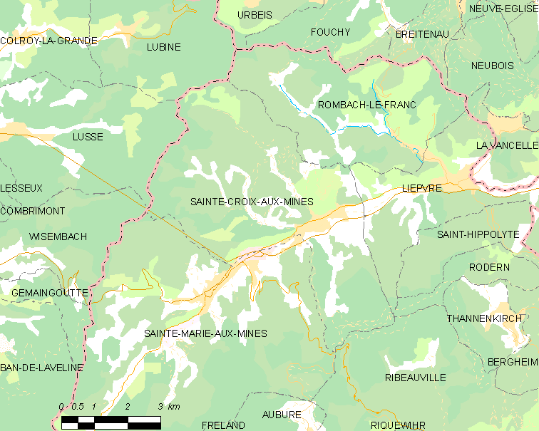 Map of French municipality